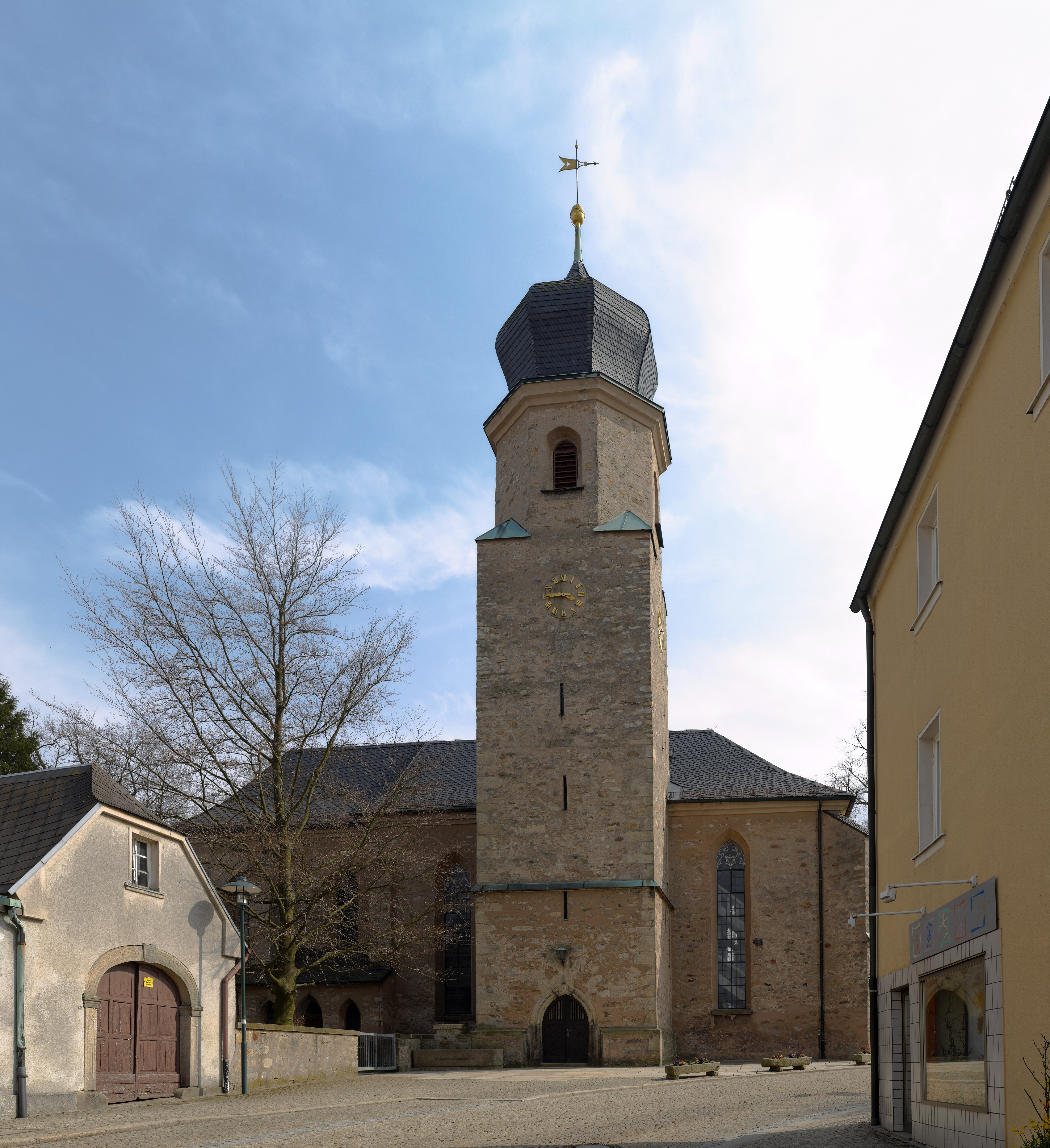 Church "St. Jobst" at Rehau, Bavaria